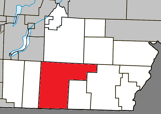 Location of Coaticook within Coaticook Regional County Municipality.